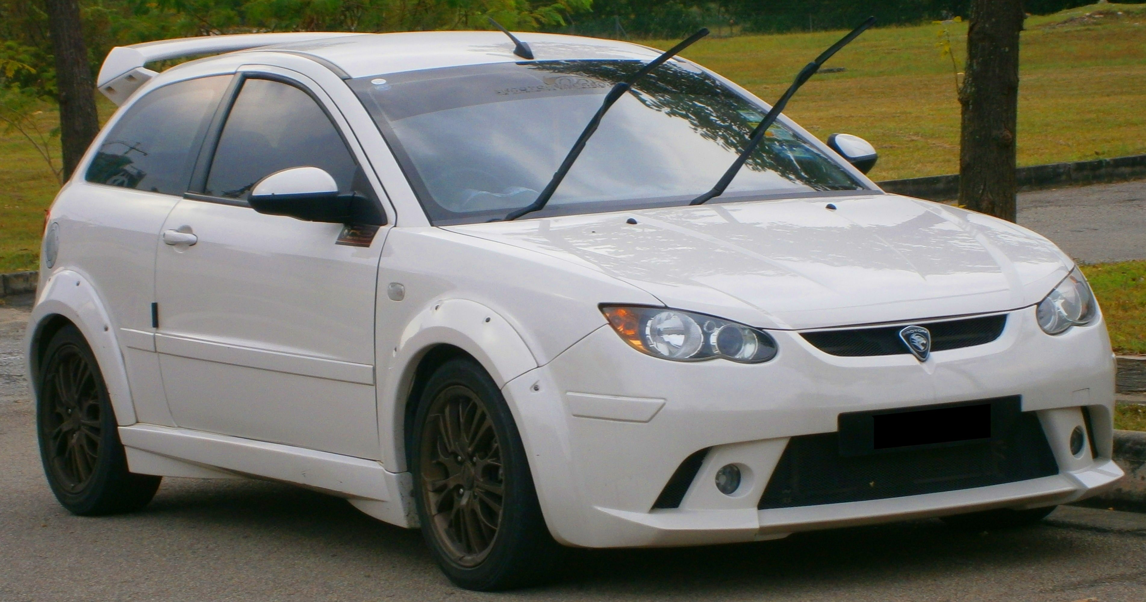 2011 Proton Satria Neo CPS H-Line in Cyberjaya, Malaysia. Colour : Solid White Designed & Manufactured in Malaysia